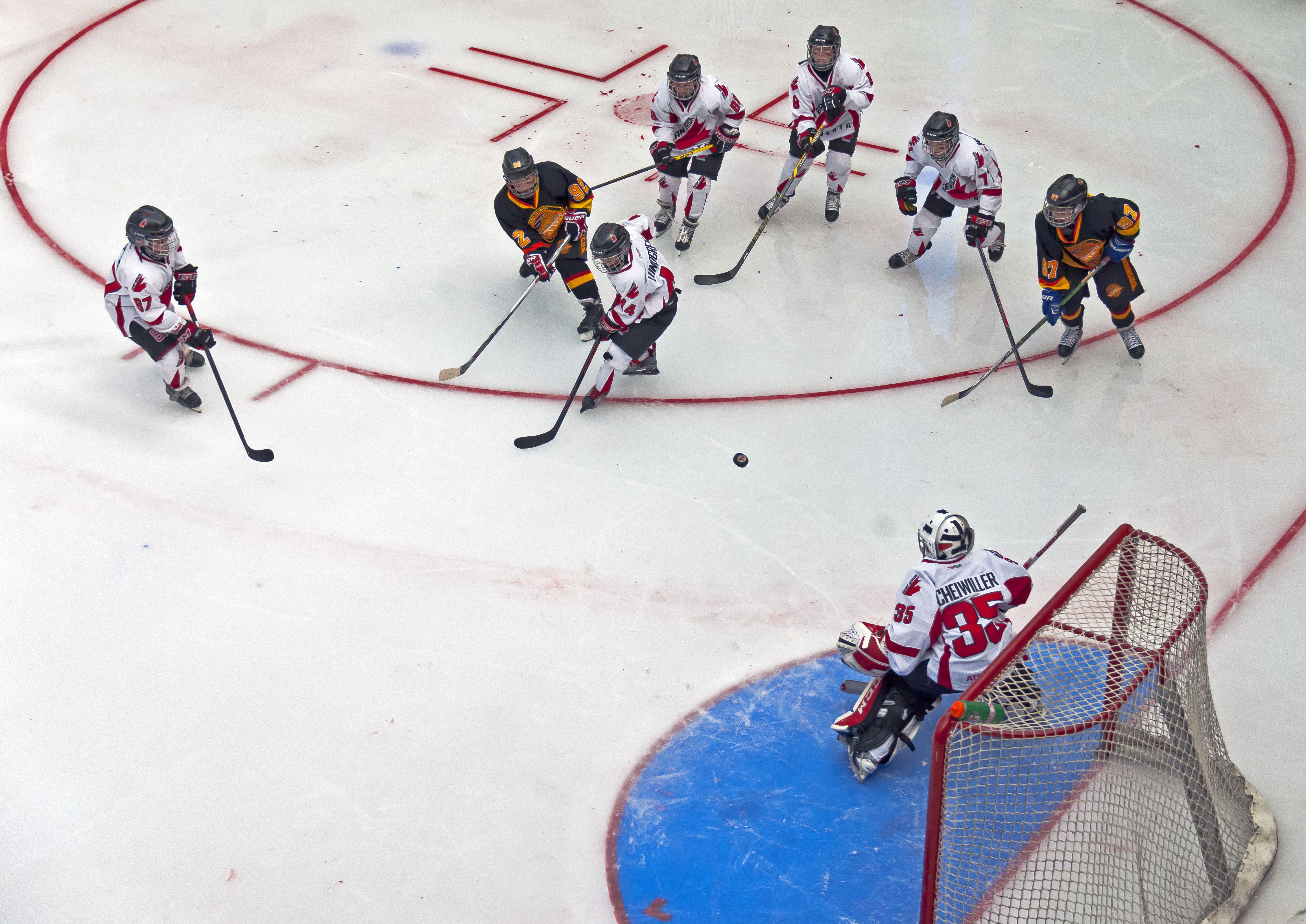 A goal in the process of being scored during The Brick annual youth hockey tournament at the Ice Palace in the West Edmonton Mall